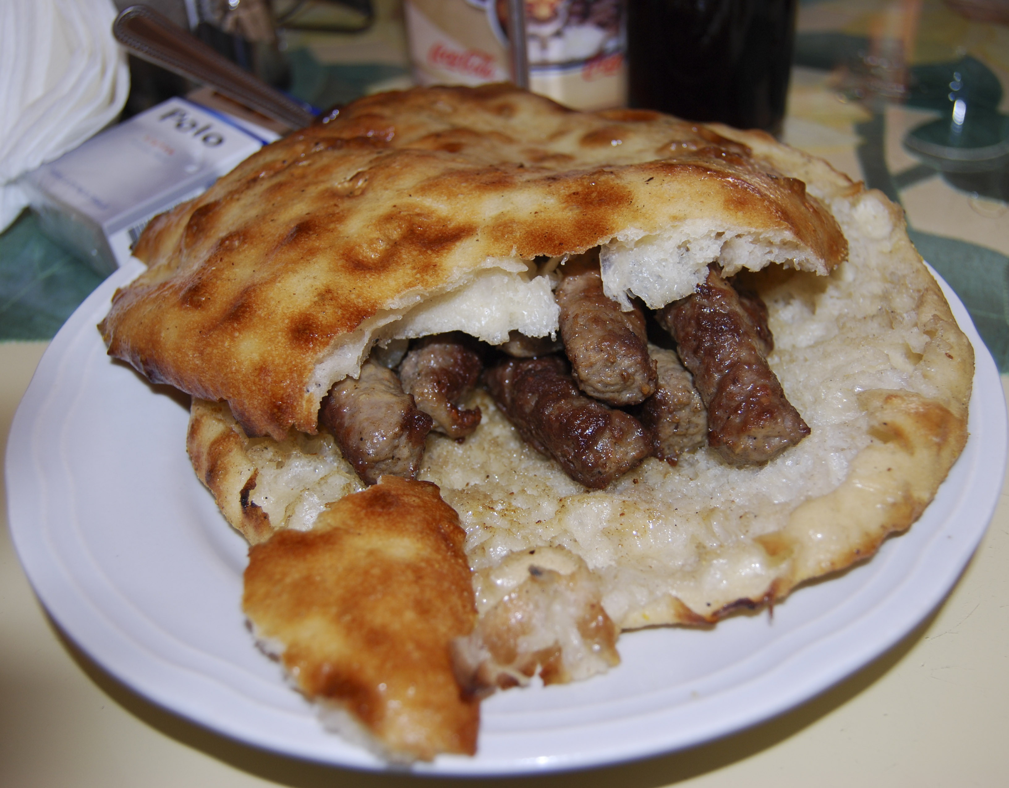 Portion of ćevapi in Travnik